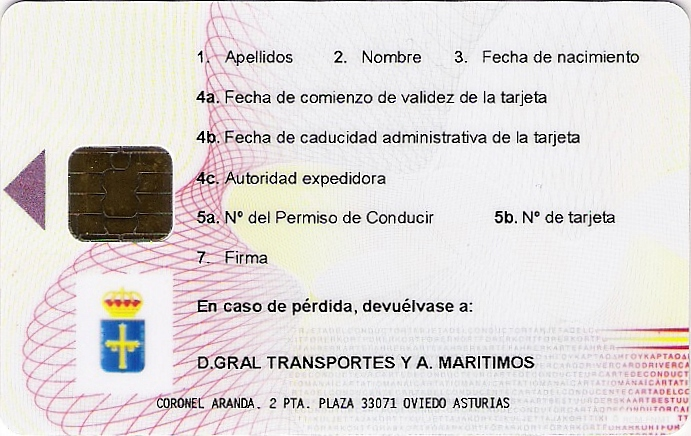 Driver card digital tachograph (back).